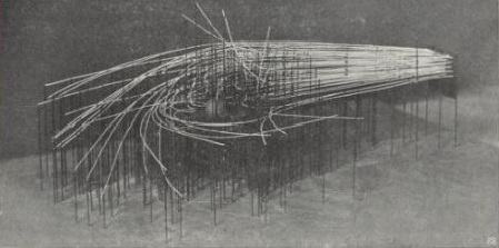 Wire model of trajectories to negatively charged particles moving in an elemental magnetic field. The model should imagine the vacuum chamber with the terrella to Kristian Birkeland. From the book, The Norwegian Aurora Polaris Expedition 1902-1903, Volume 1: On the Cause of Magnetic Storms and The Origin of Terrestrial Magnetism, Section 2. Chapter VI: p. 156